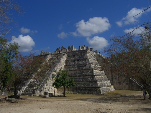 "The Ossuary" at Chich'en Itza, Yucatán